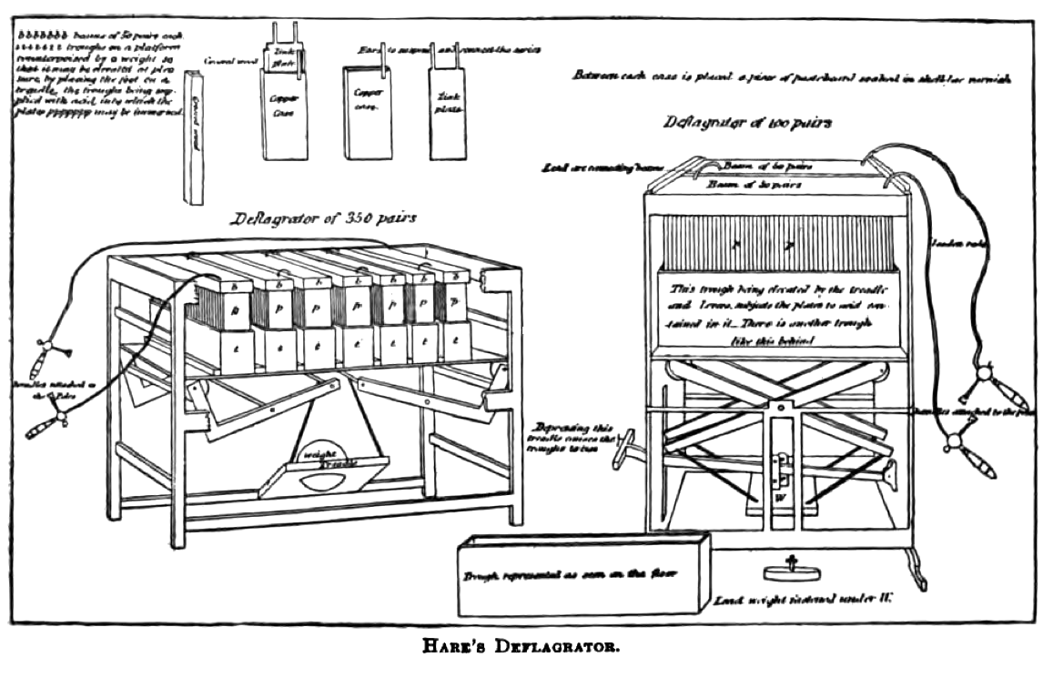 The Deflagrator by robert Hare